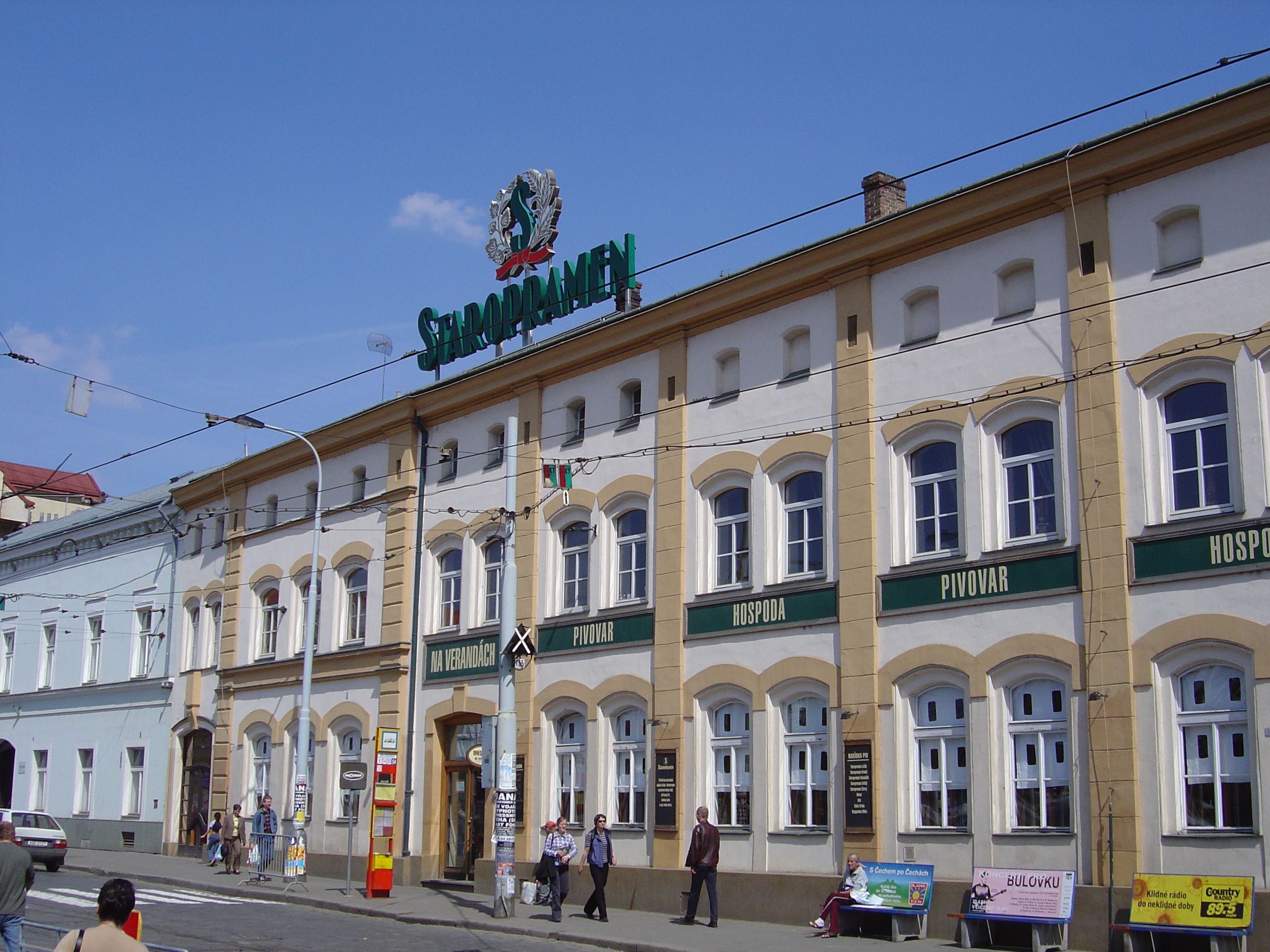 The Staropramen Brewery.